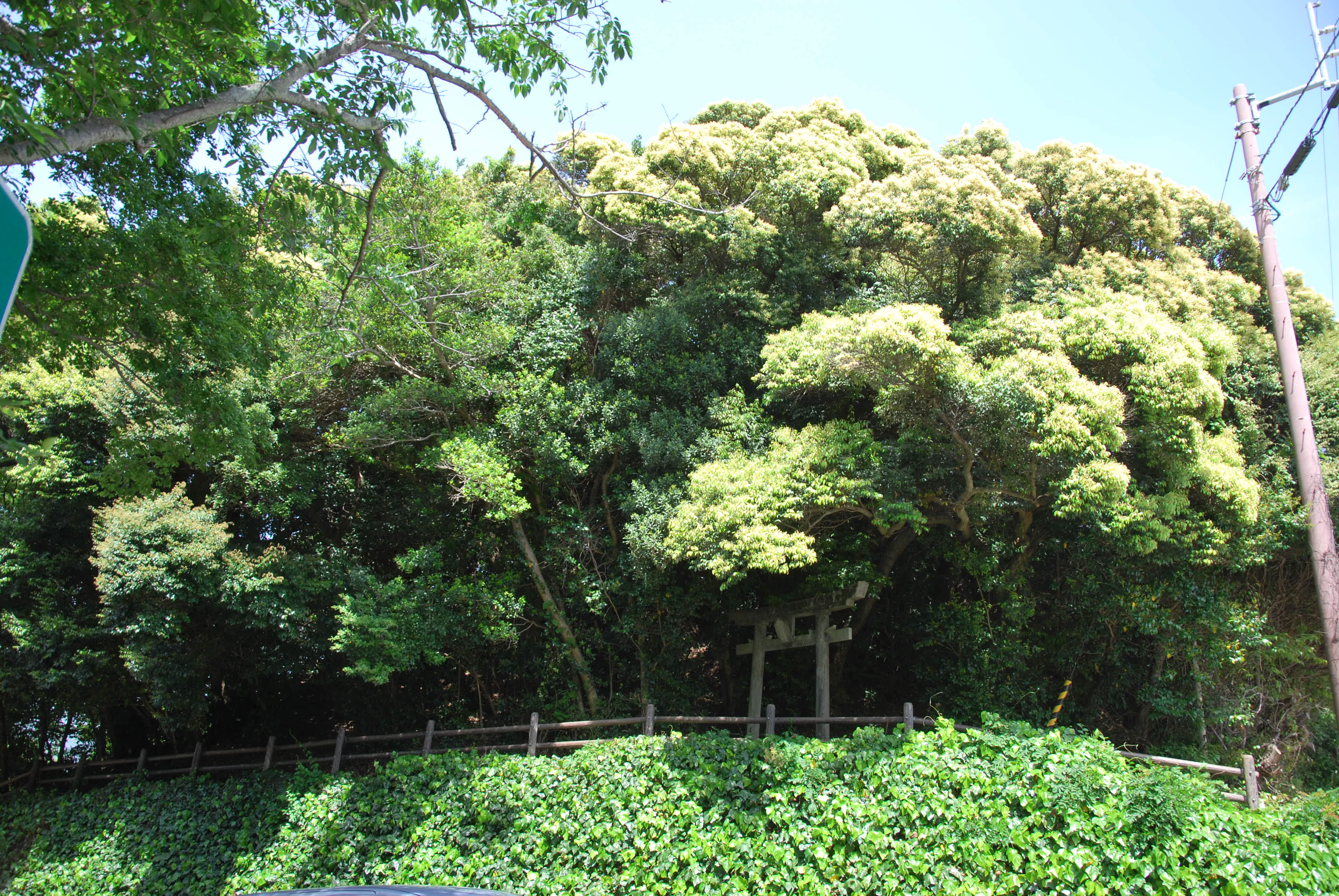 Mound of the keep, Urado-jō